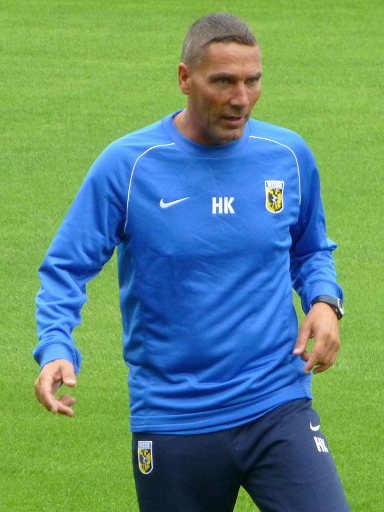 Hendrie Krüzen, assistant-manager at Vitesse